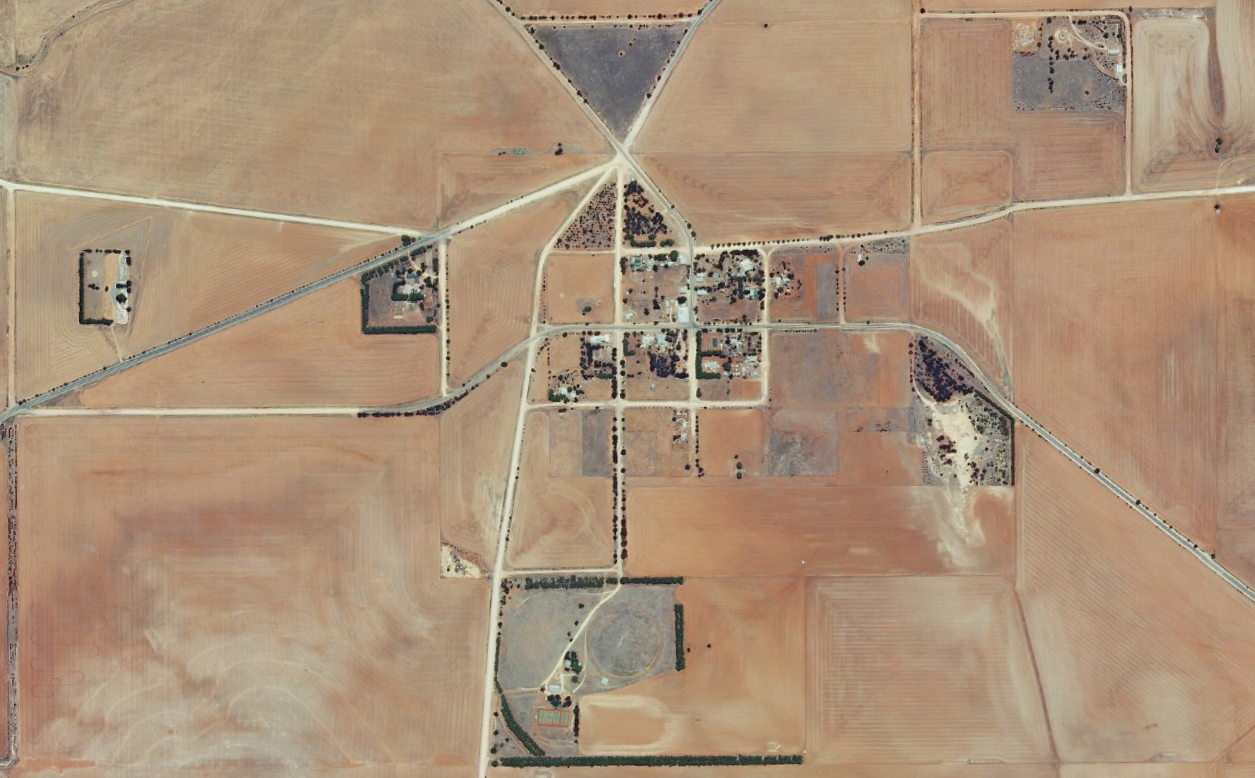 Aerial image of Appila, South Australia, November 2015. Image generated by the Government of South Australia website's Property Land Browser tool.